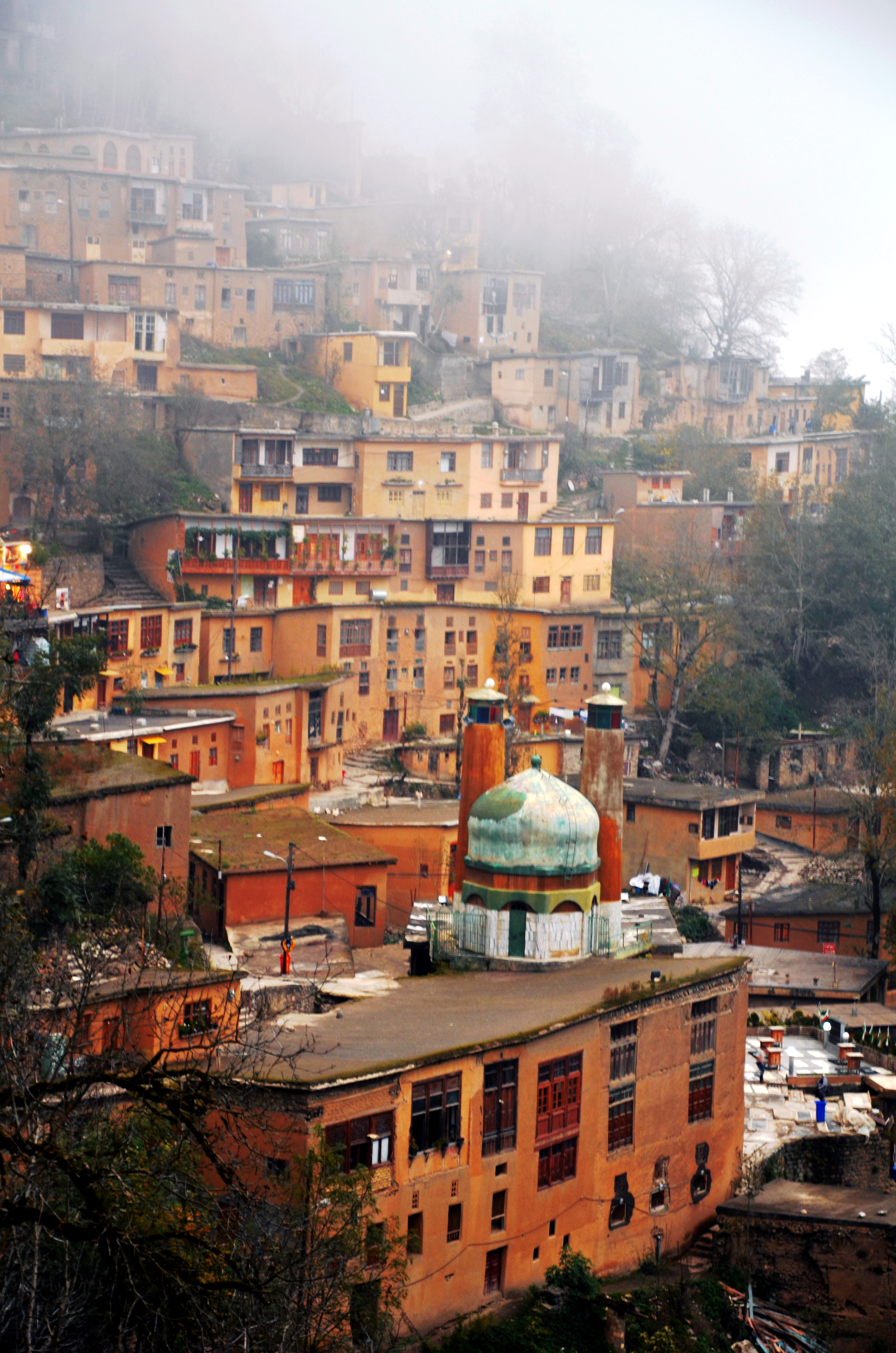 Masouleh